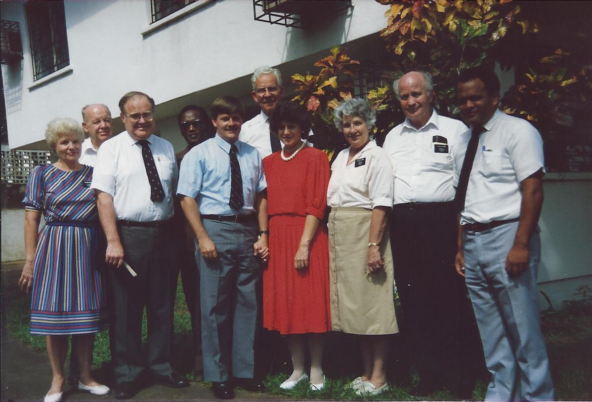 Liberia dedicated for the preaching of the Gospel by Elder Marvin J. Ashton